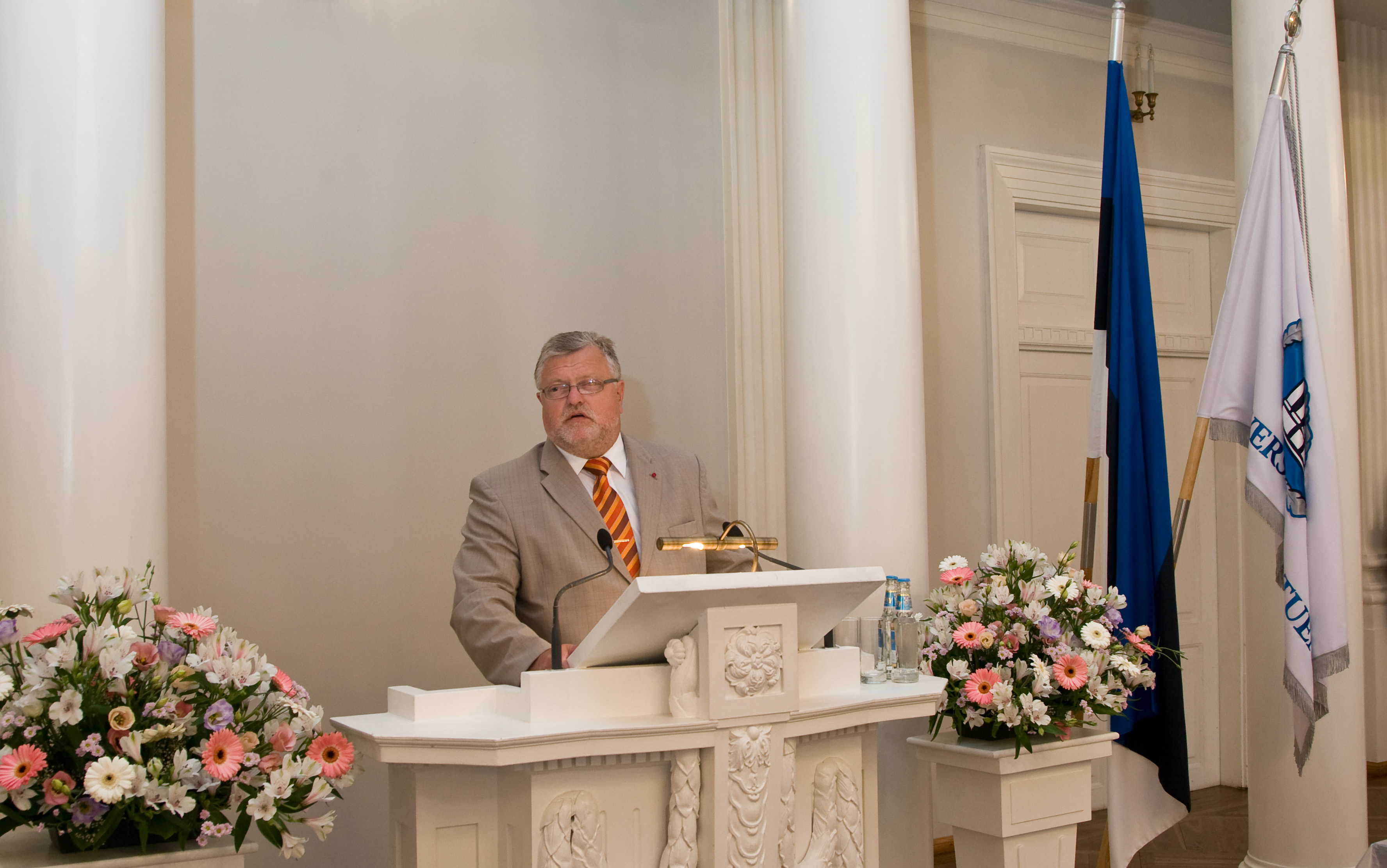 Tartu Ülikooli majandusteaduskonna lõpuaktus TÜ aulas 20. juunil 2008. Pildil professor Janno Reiljan.